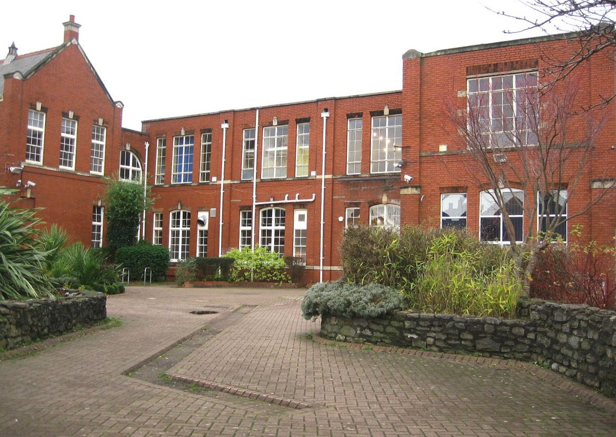 Cardiff Retail Park in construction. Cardiff, Wales.